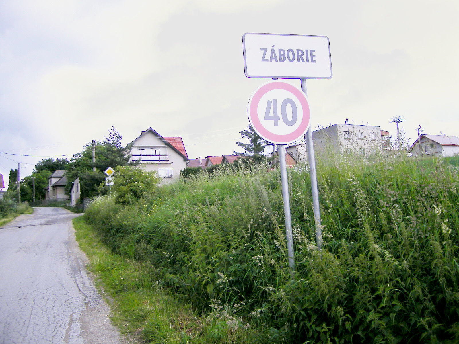 Záborie